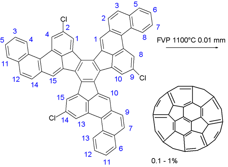 Multistep Fullerene Synthesis A Rational Chemical Synthesis of C60 – Lawrence T. Scott, et al. – Science 295, 1500 (2002)